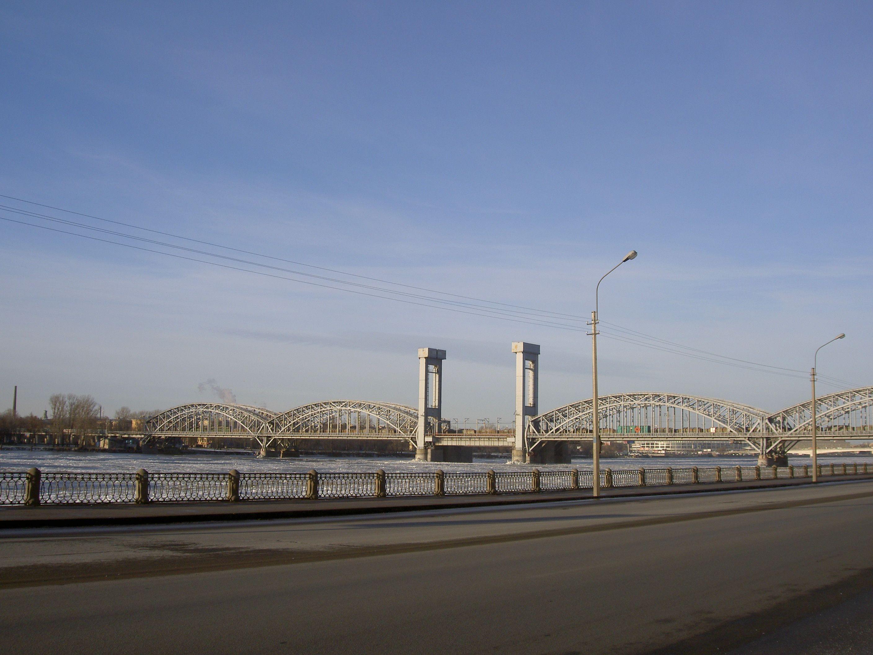 Finland Railway Bridge in Saint Petersburg